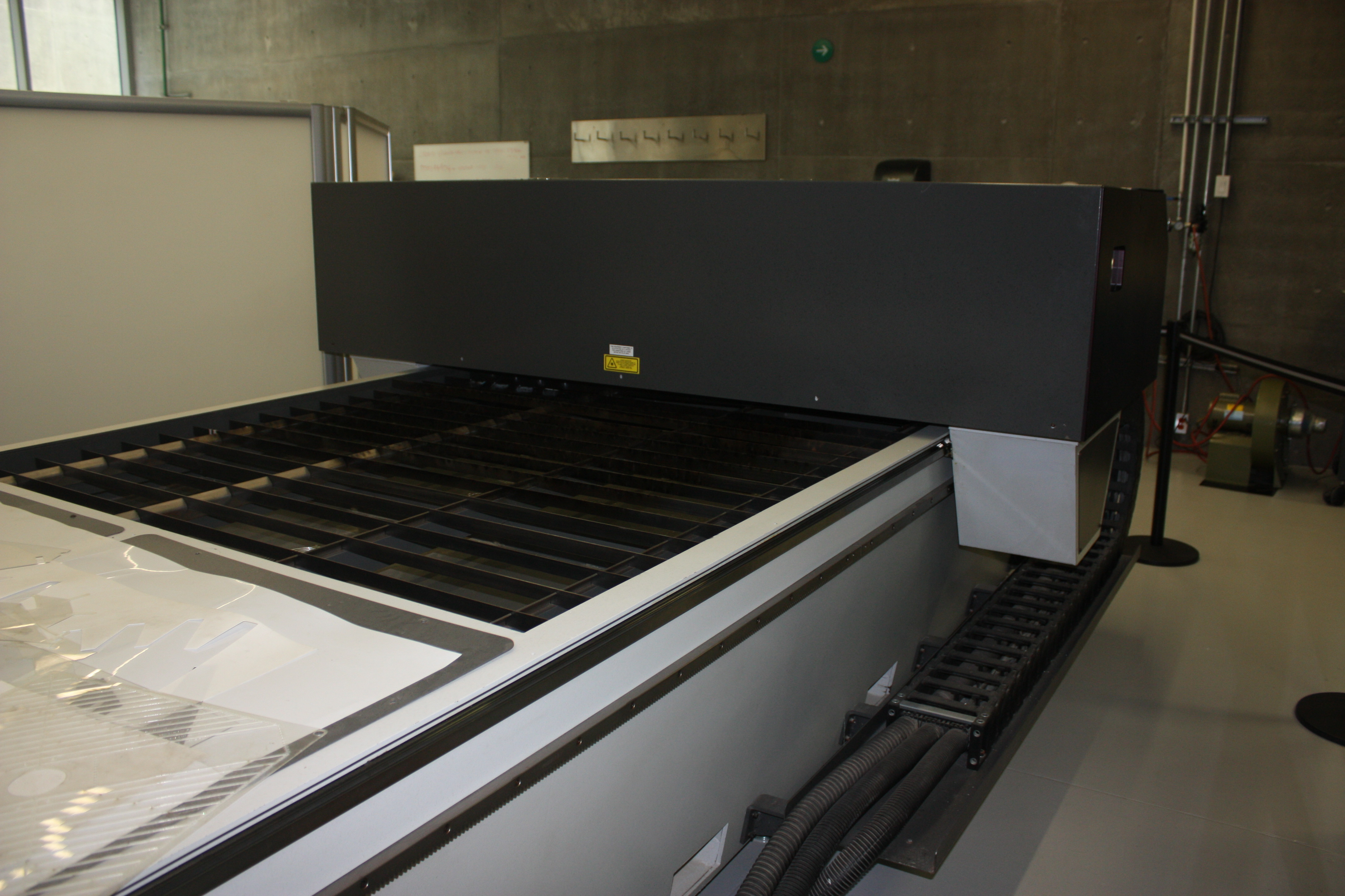 Laboratorio de Corte Digital